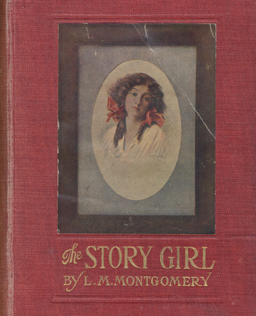 Cover of The Story Girl by L.M. Montgomery.